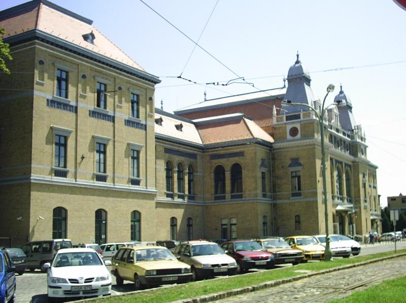 Szeged, railway station